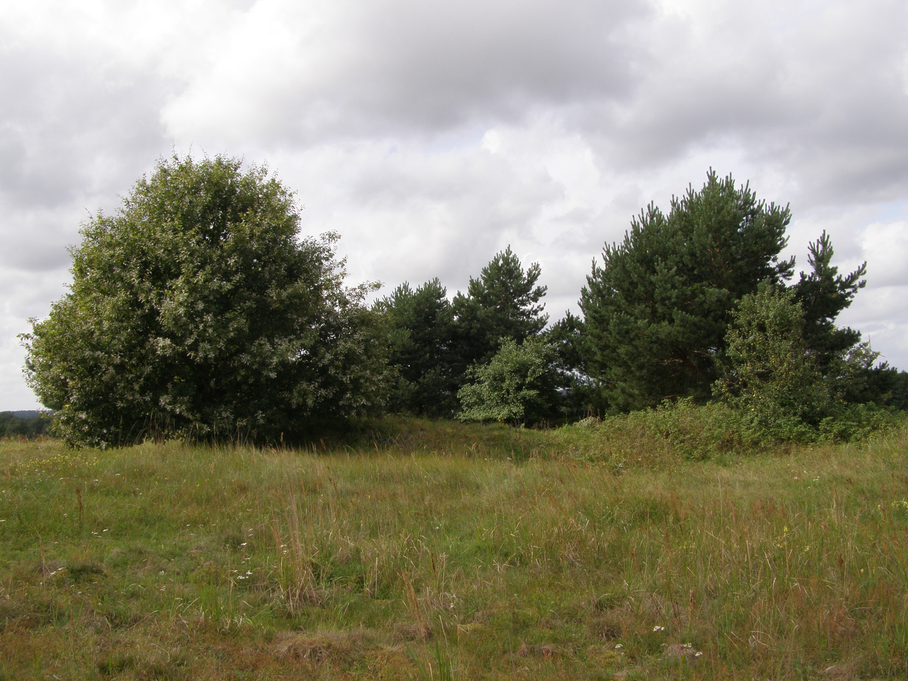 Kveciai burial mound, Kretinga district, Lithuania